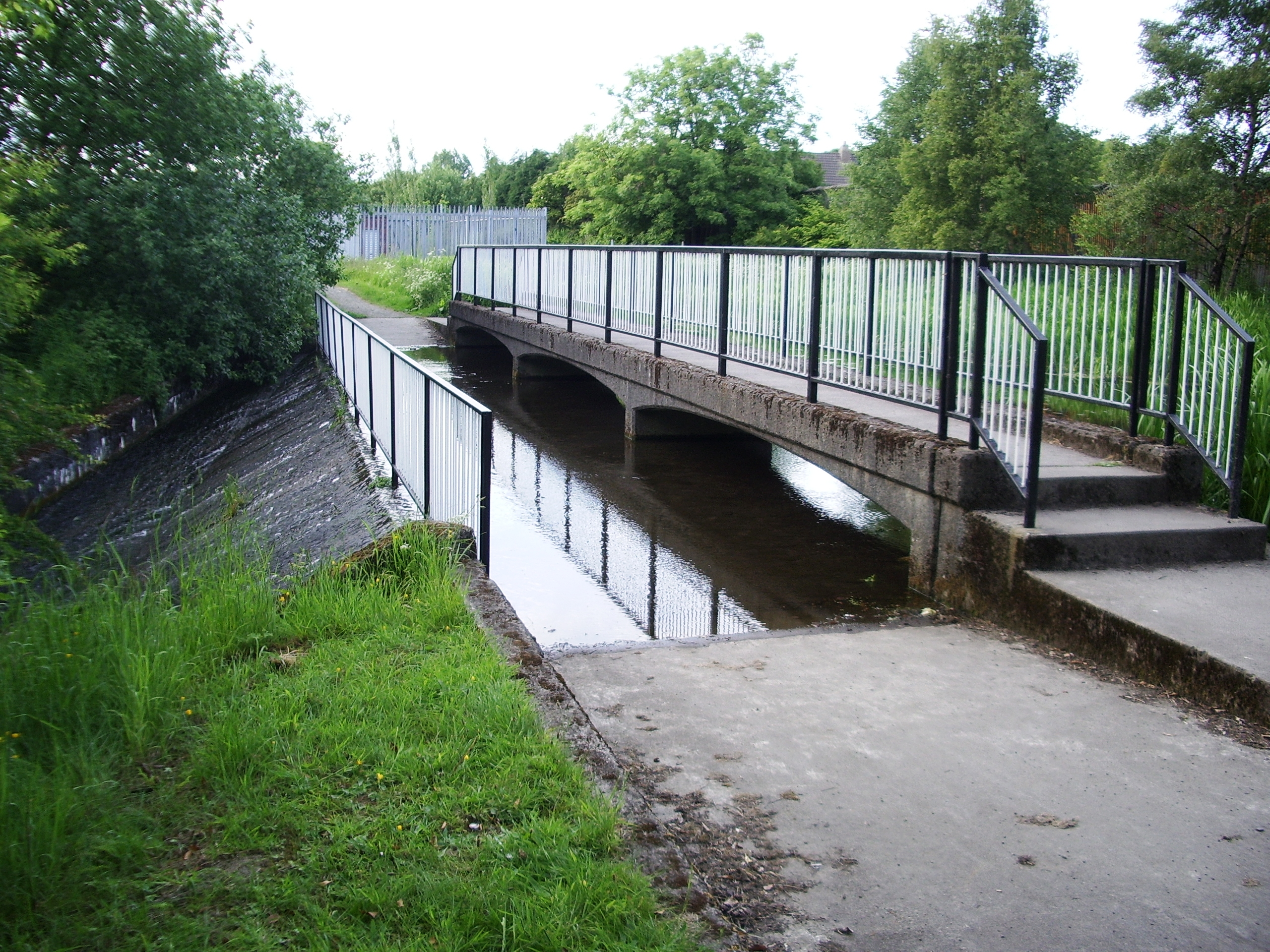 Monkland Canal at the Old Palacecraig weir. The canal is piped underground through Coatbridge, emerging at the Blair Road bridge.